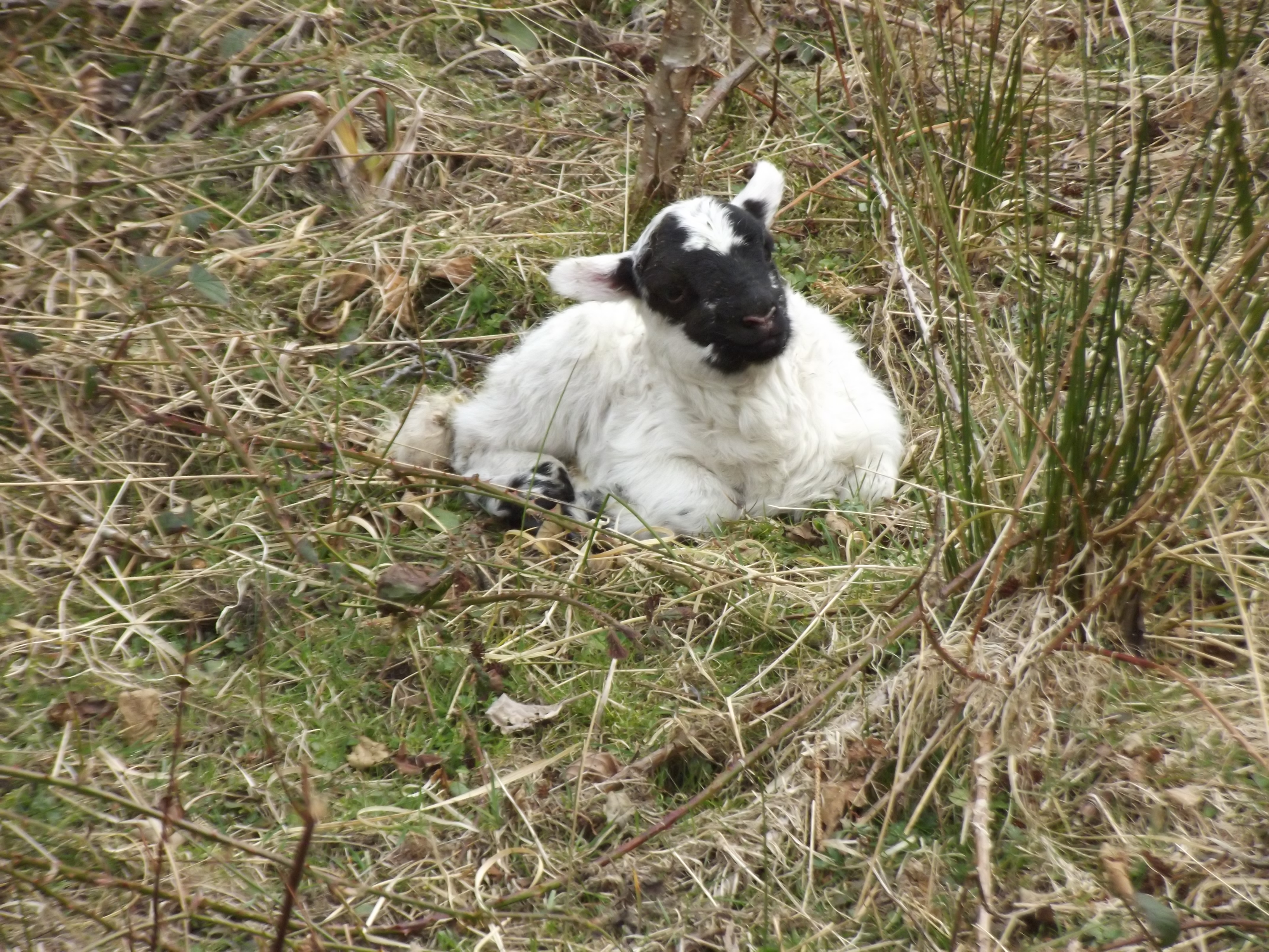 Scottish blackface lamp. Shot in Shieldbridge